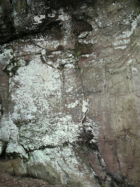 Celtic Cross A circular-topped Celtic cross incised into the natural stone of a cliff in Dunino Den. The Den is reputed to have been a Druidic place of sacrifice and ceremony and the cross was presumably carved by Christian believers to 'sanctify' the place.